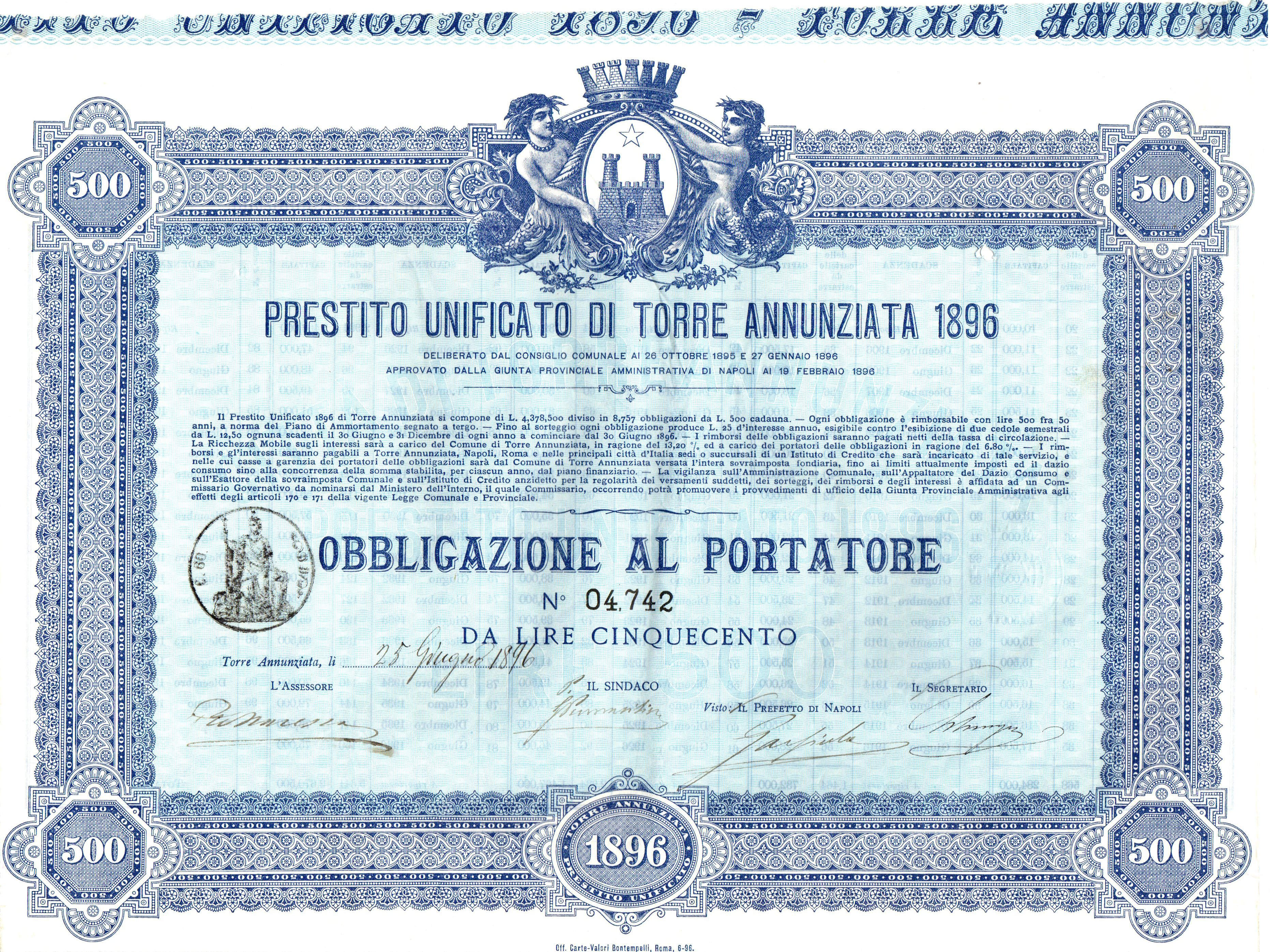 Bond of Torre Annunziata, issued 25. June 1896